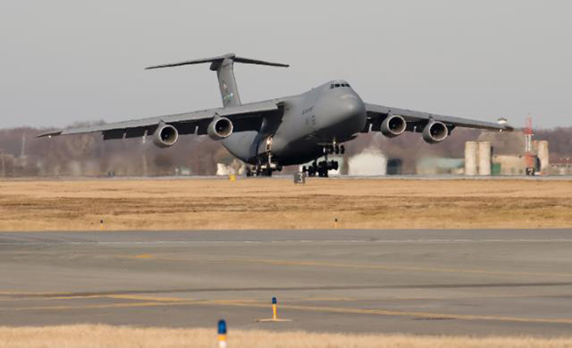 The first C-5M Galaxy "Spirit of Global Reach" lands at Dover Air Force Base.